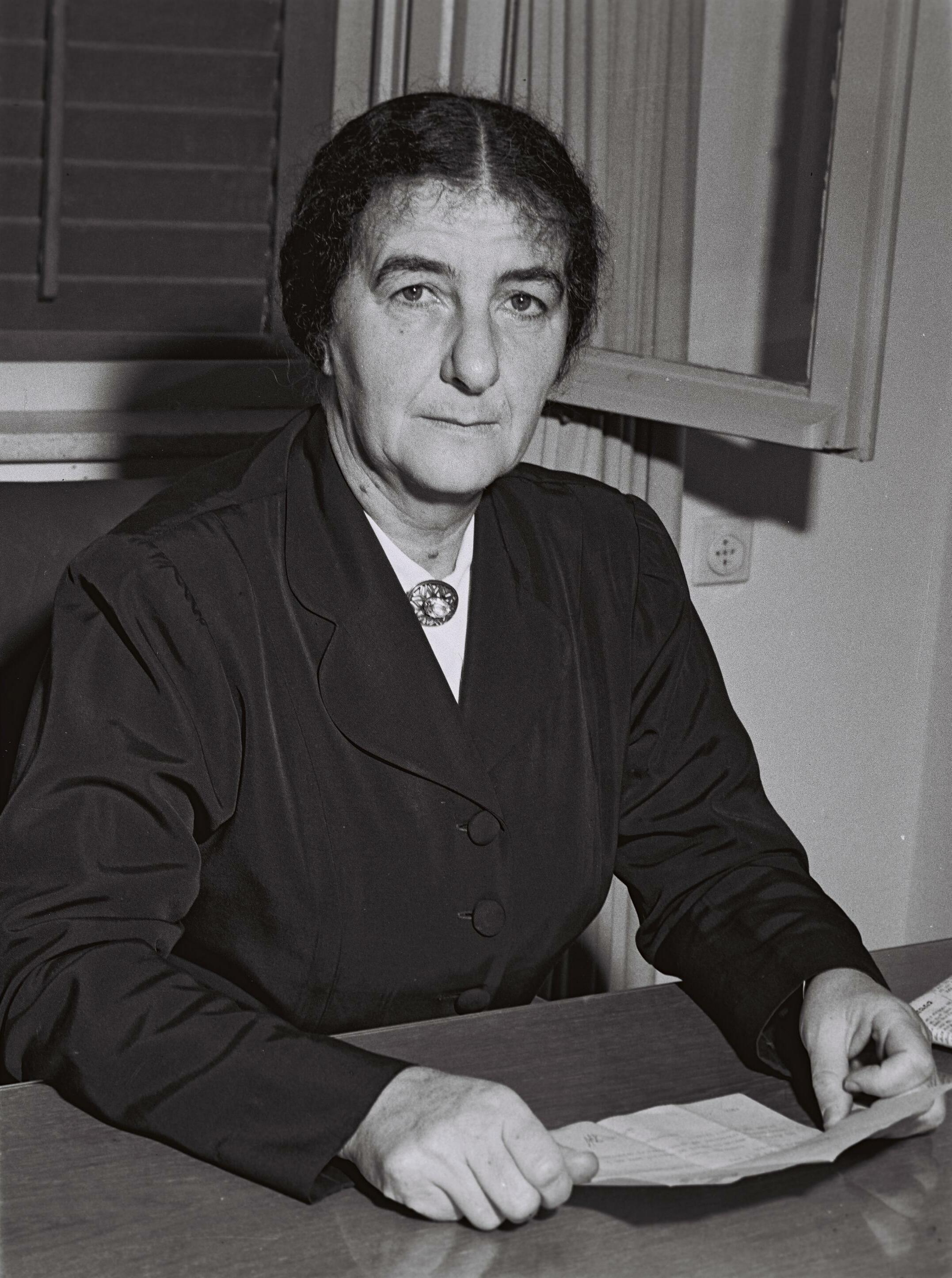 Golda Meir the Labor Minister of Israel in 1949. depicted person: Golda Meir (age: 51.42)